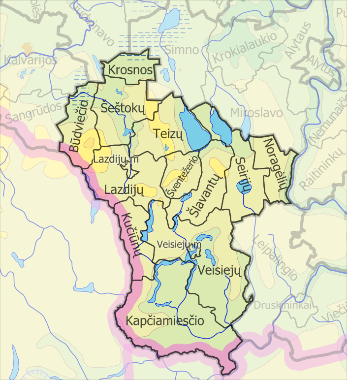 Subdivision of Lazdijai district municipality in Lithuania